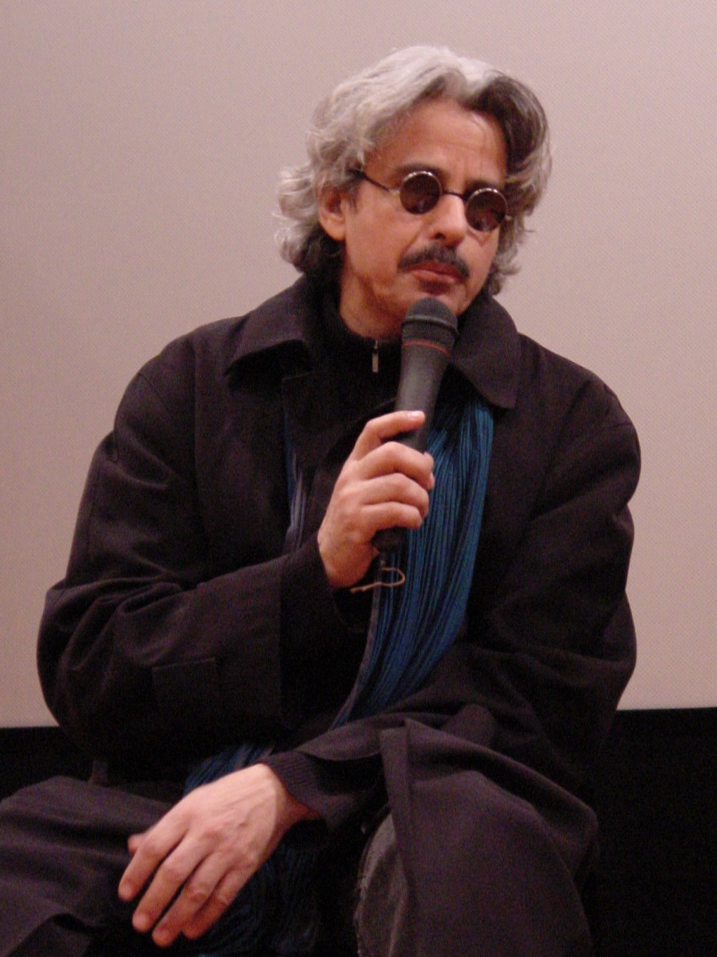 Tunisian writer and film director Nacer Khémir in Tokyo, 2007